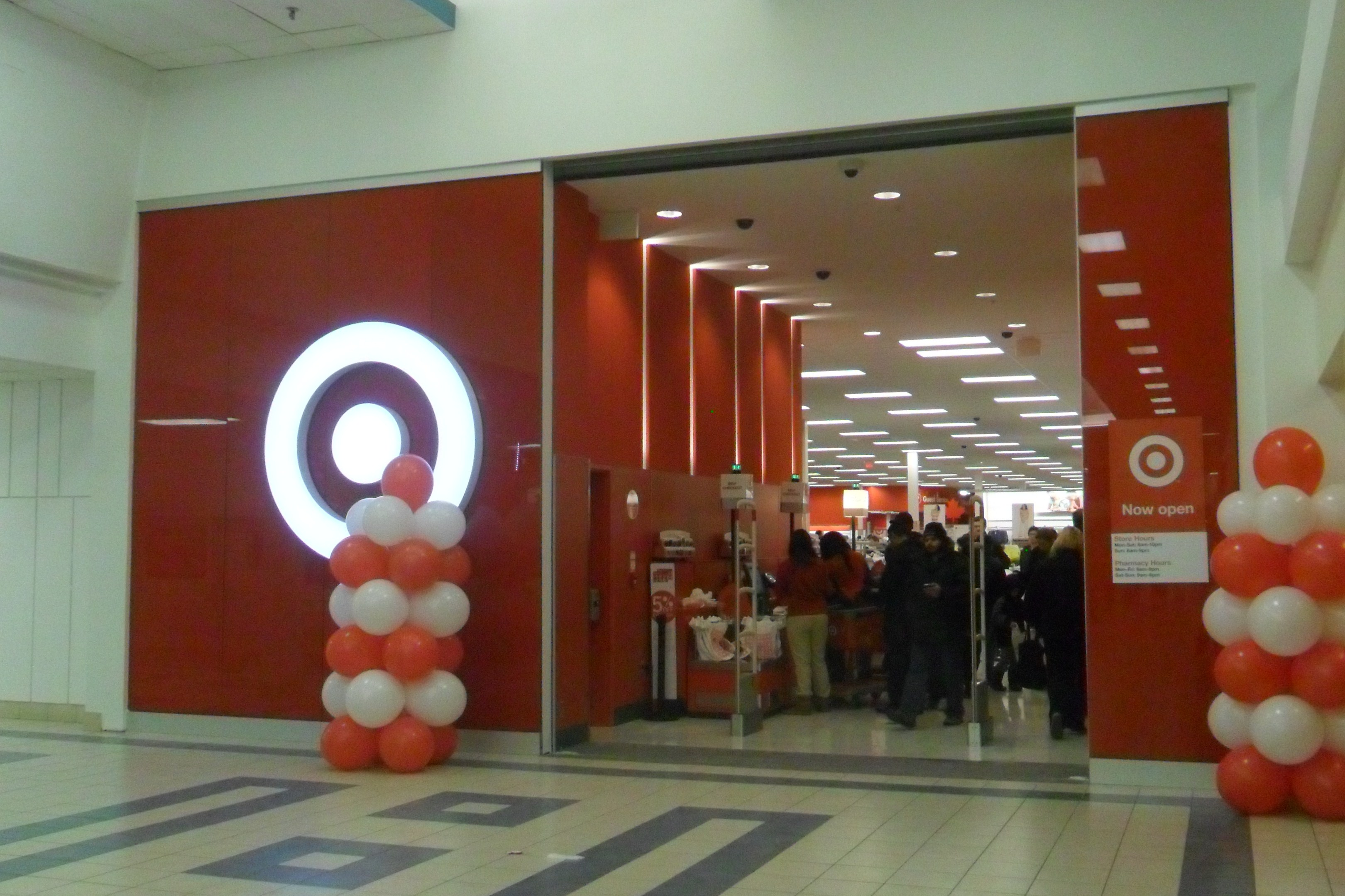 Interior view of Target store at Shoppers World Brampton, on its first evening of operation. Target had previously soft launched three stores outside of the Greater Toronto Area; this soft launch was one in a series of launches that day, within the GTA.